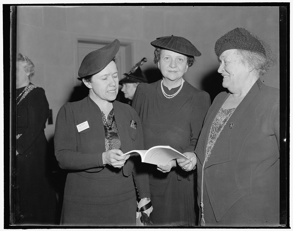 Harris & Ewing/LOC hec.28020. Fru Betzy Kjelsberg, Perkins, & Miss Charlotte Whitton, 1939 or 1940